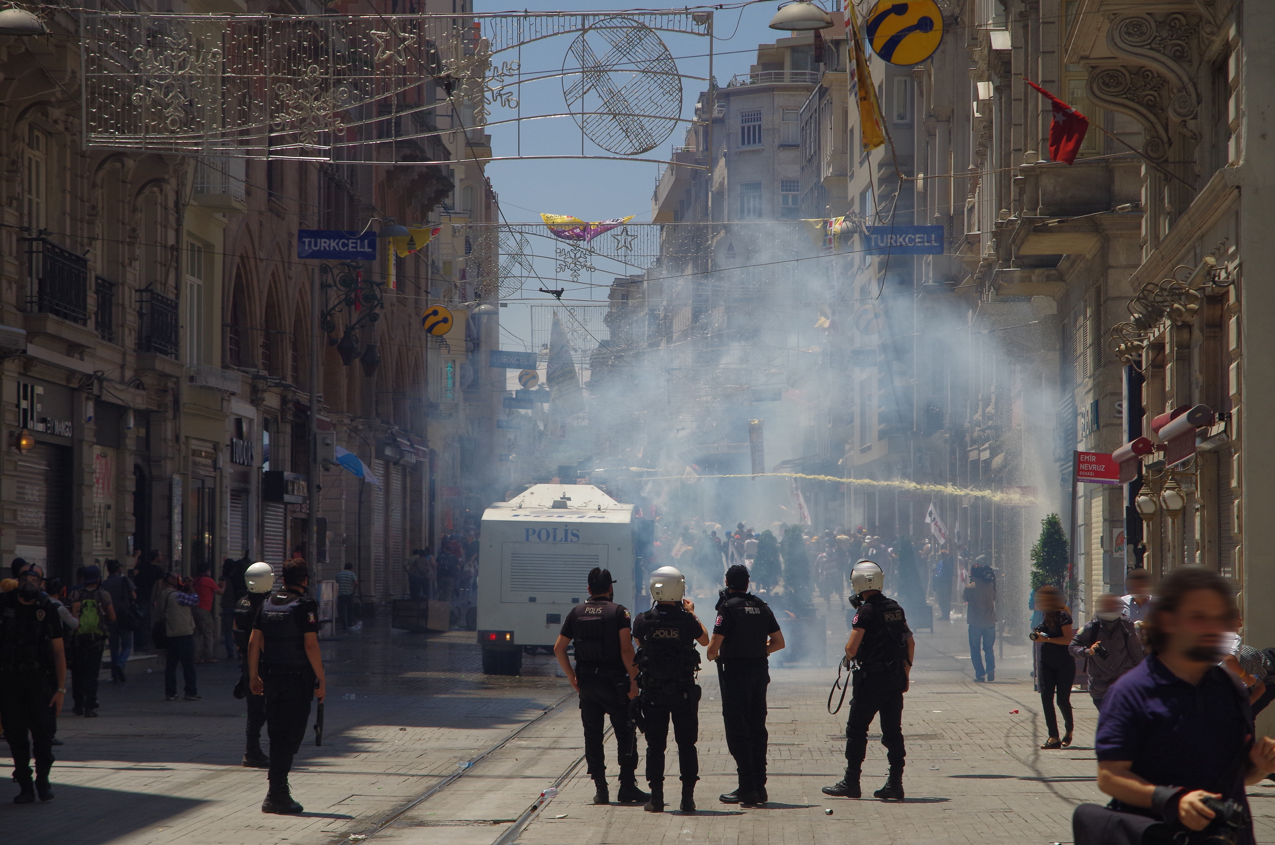 TOMA Water Cannon & Tear Gas used on İstiklâl Caddesi near Taksim Square